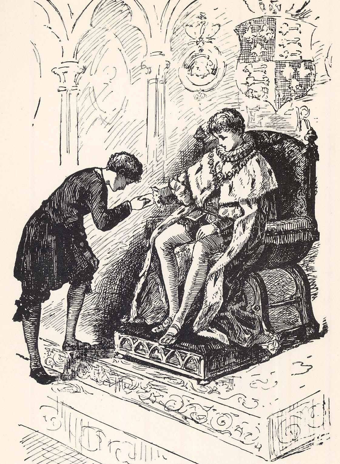 King Edward VI of England and the Pauper as drawn for the novel